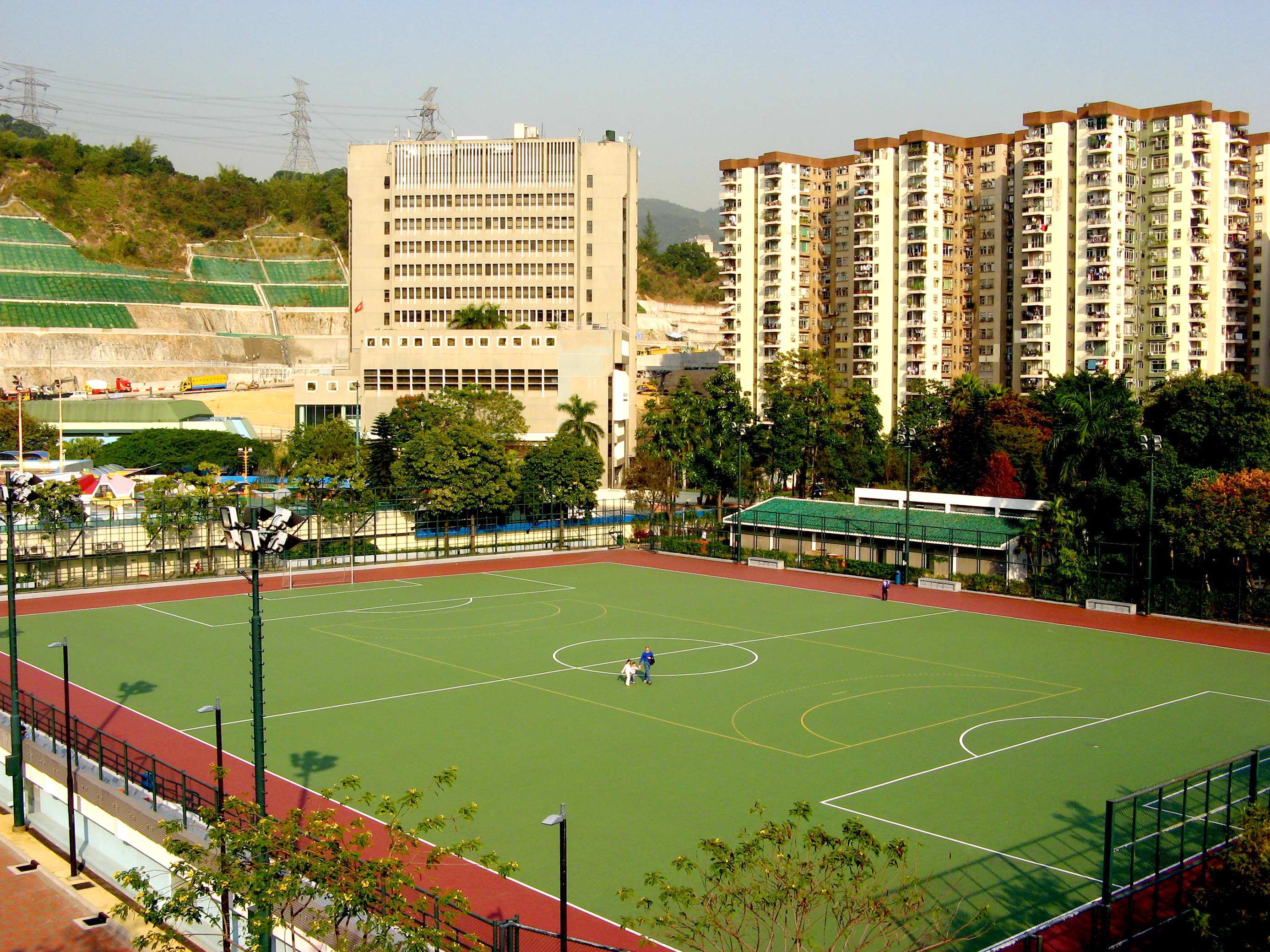 A hard-surfaced soccer pitch in Lai Chi Kok Park, Hong Kong.